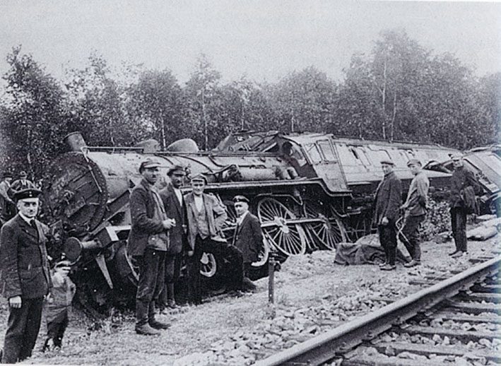 The train accident in Leiferde, Lower Saxony in August 1926